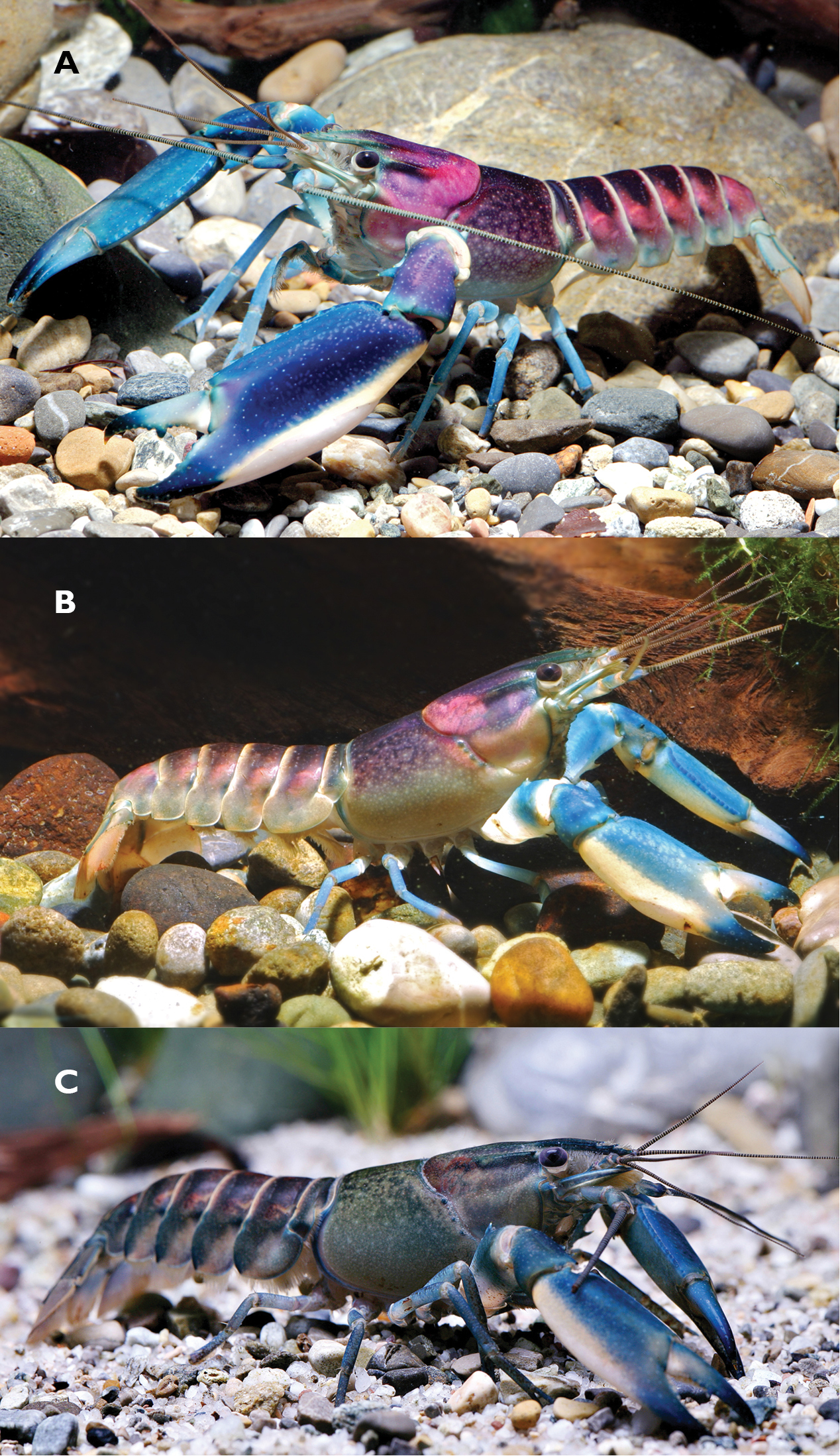 Cherax (Astaconephrops) pulcher sp. n. A adult male from Aquarium Dietzenbach B immature male from Hoa Creek, West Papua C female from aquarium import (not listed in material examined) from Indonesia.